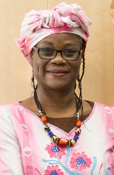 Madame Hadizatou Rosine COULIBALY/SORI, Ministre de l’Economie et des Finances, Burkina Faso, is paying a courtesy visit to the Executive Secretary of the Comprehensive Nuclear-Test-Ban Treaty Organization, on Monday, 5 December 2016.